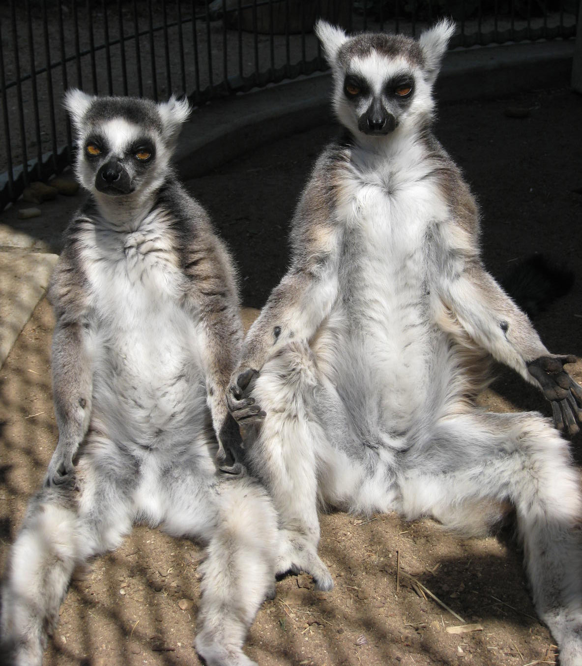 Ring-tailed lemurs sunning, taken at America's Teaching Zoo at Moorpark CollegeLeft: Lenny (a.k.a. "Obi"), Stud book #: 2353; Right: Mahajanga (a.k.a. "Janga"), Stud book #: 2856